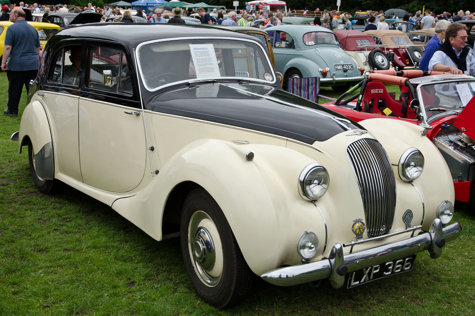 Lagonda 2.6-litre sports saloon(DVLA) first registered 10 February 1951, 2586ccHebden Bridge Vintage Weekend 04/08/2013